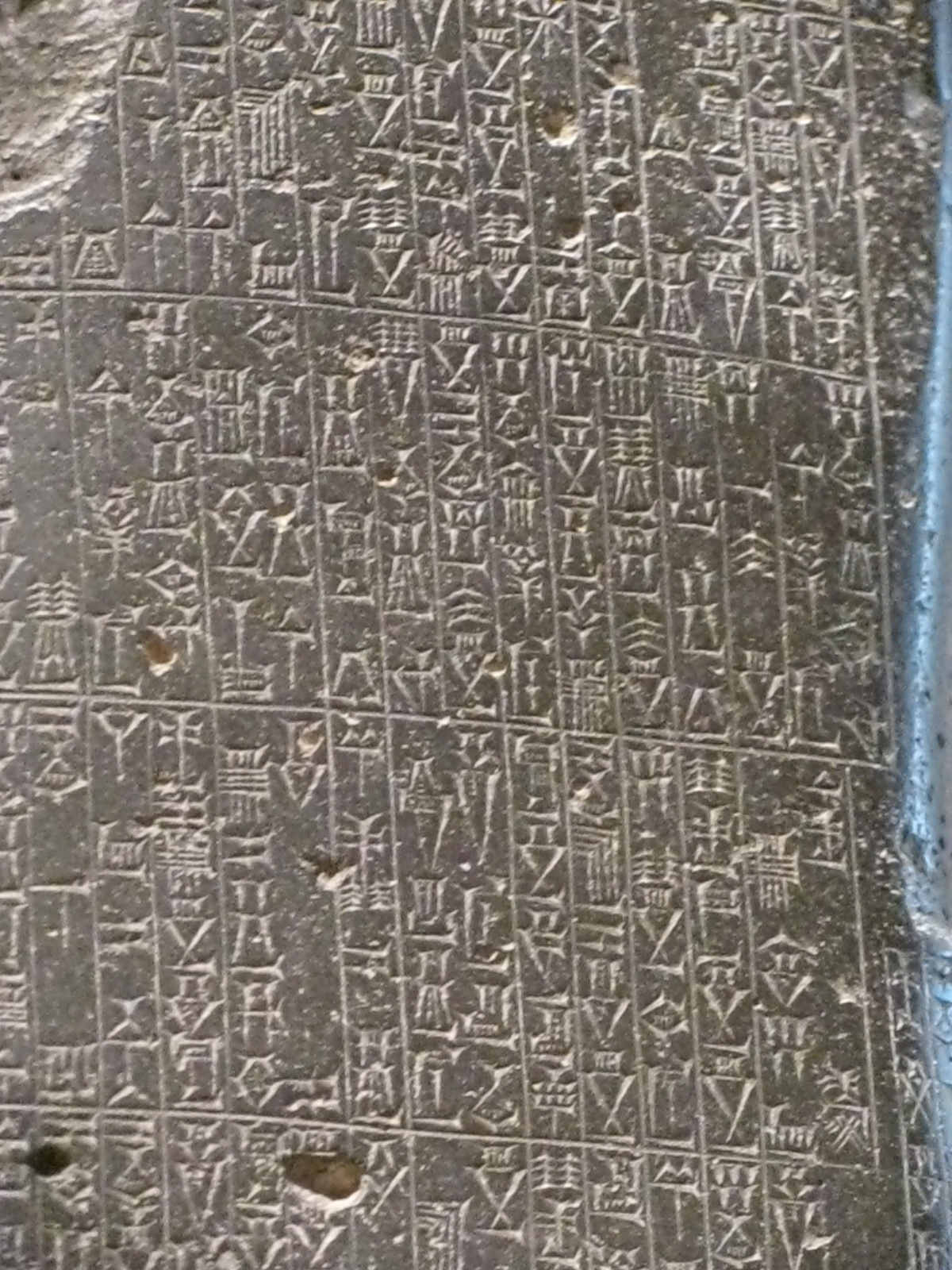 Code of Hammurabi